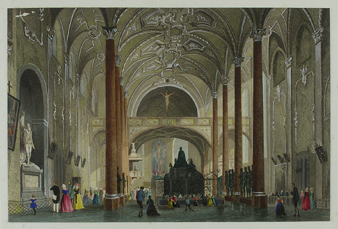 Inneres der Hofkirche zu Innsbruck. Colorized print, 19th century(?), 14 x 21 cm